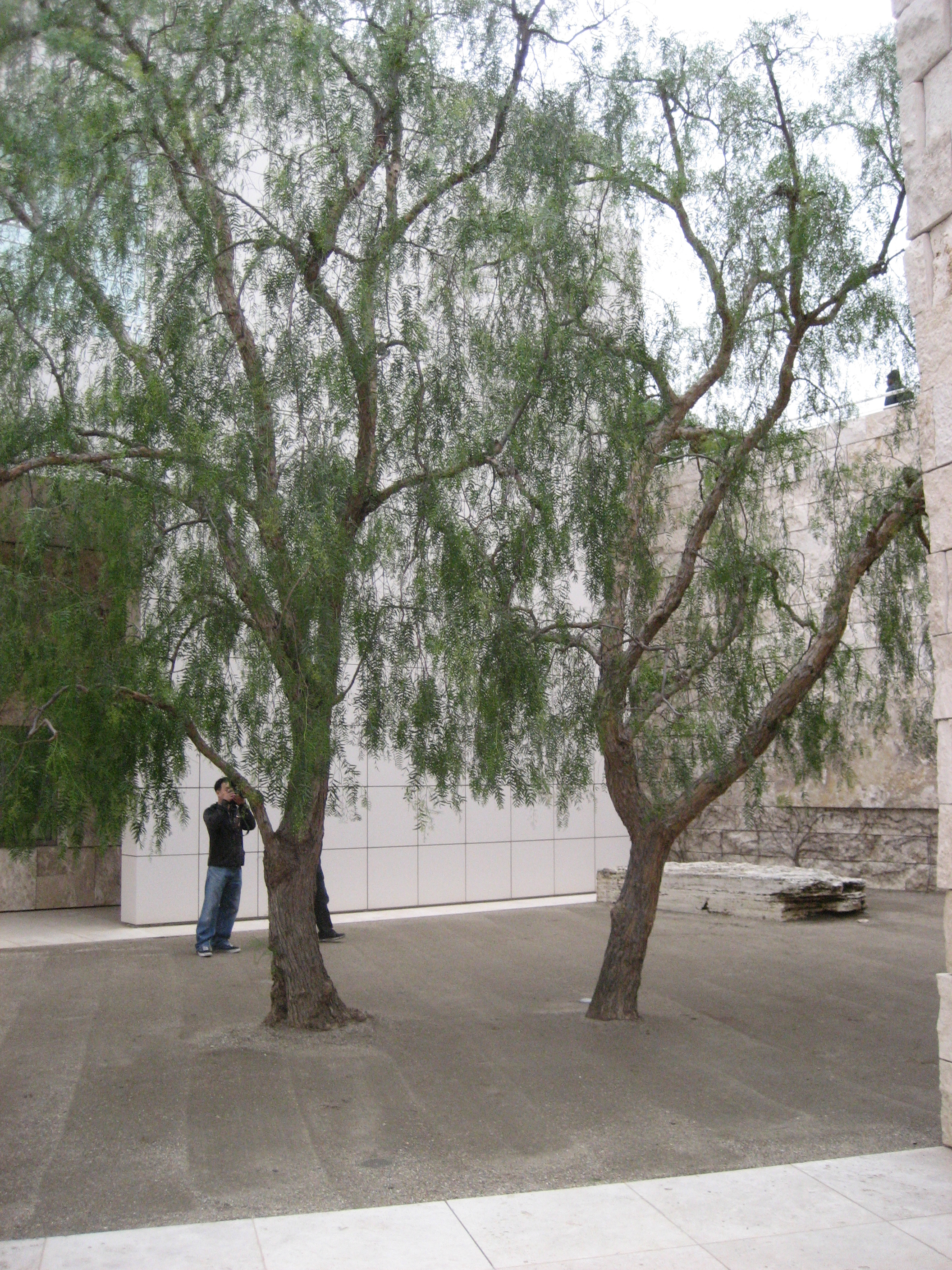 On the grounds of the Getty Center in Los Angeles.